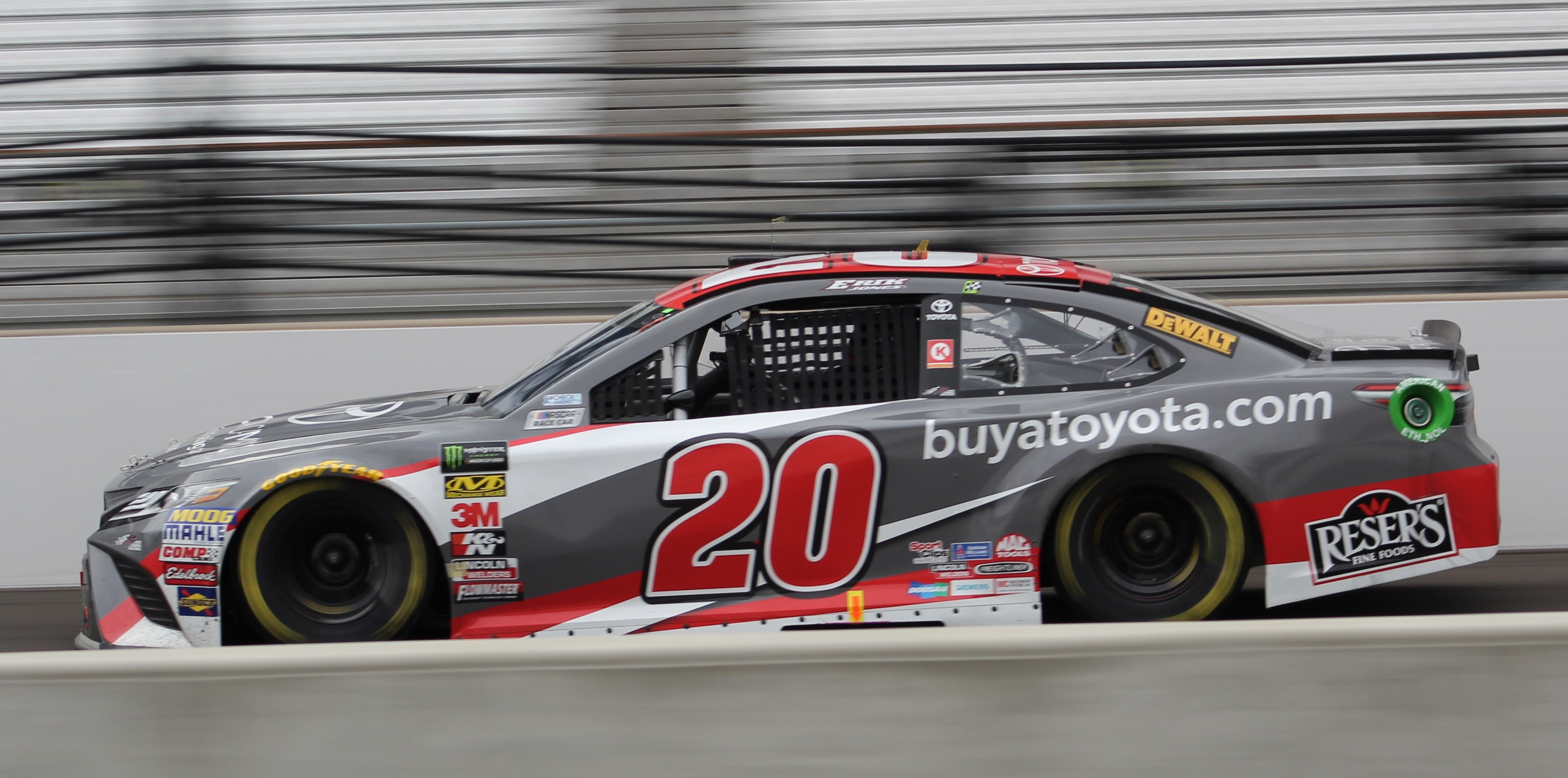 Erik Jones' No. 20 Toyota Camry/BuyAToyota.com Toyota at Indianapolis Motor Speedway in 2018